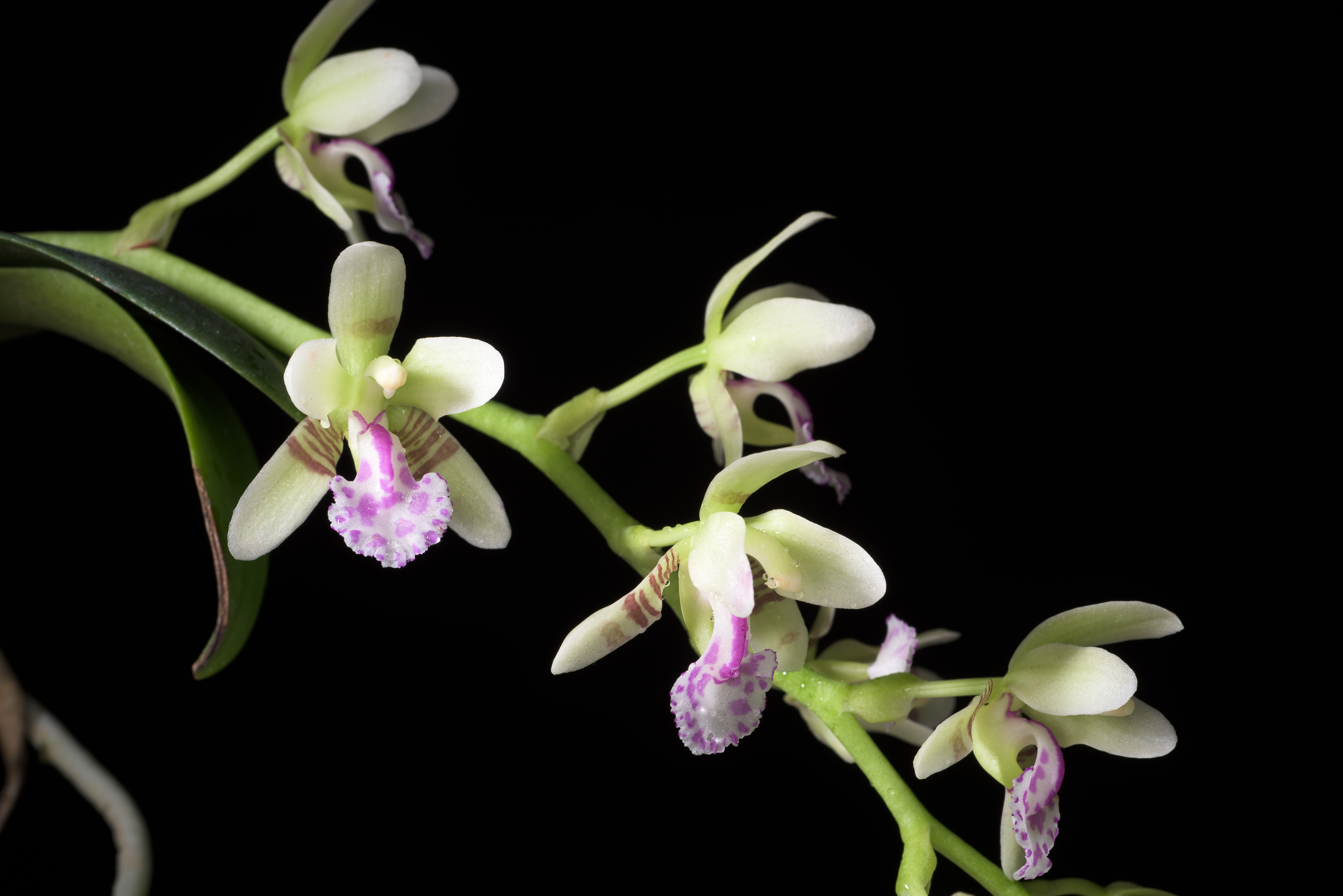 Distribution: China (W. Yunnan, Zhejiang), Korea (Jeollanam-do), SC. & S. Japan to Nansei-shoto Found in Asia-Temperate China China South-Central, China Southeast, Eastern Asia Japan, Korea, Nansei-shoto